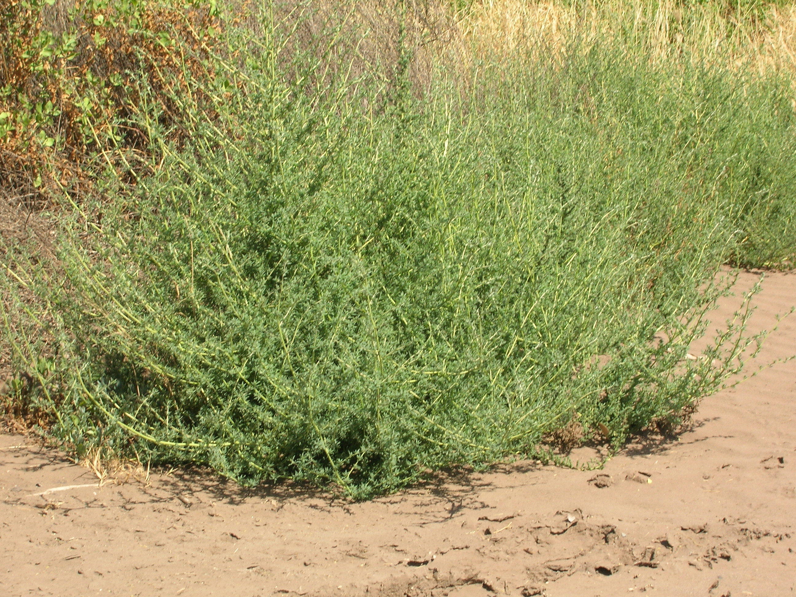 Bassia hyssopifolia (habit). Location: Molokai, Kakahaia